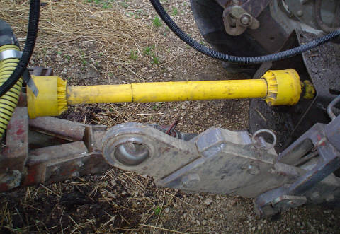 In this photo a PTO shaft is shown connected to the Power Take Off of a farm tractor. The PTO spins the shaft clockwise, when viewed from the implement, using power from the tractor's engine. The shaft transfers this power to the implement to perform certain functions.